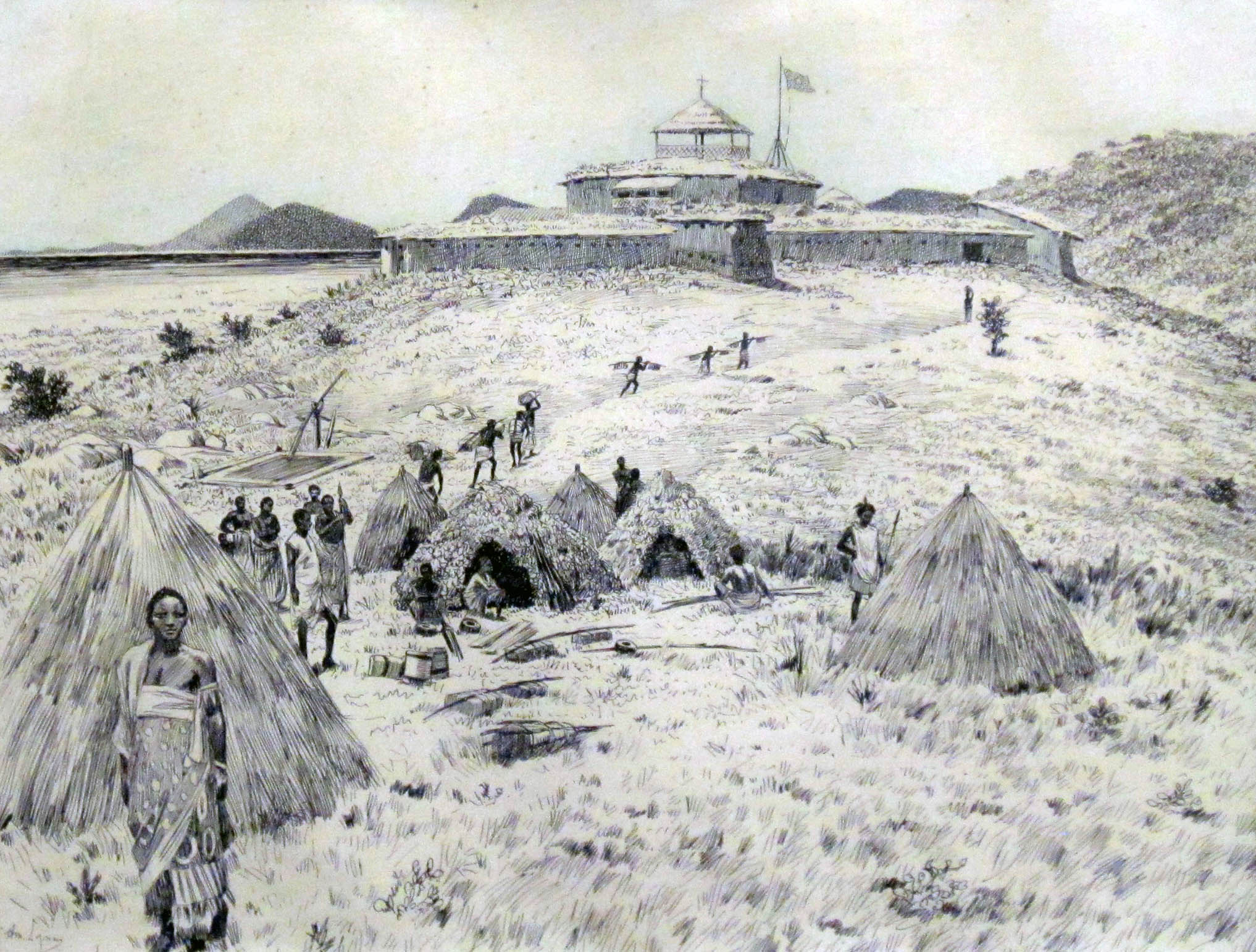 Karema in 1883 In Royal Museum for Central Africa, Terveuren.